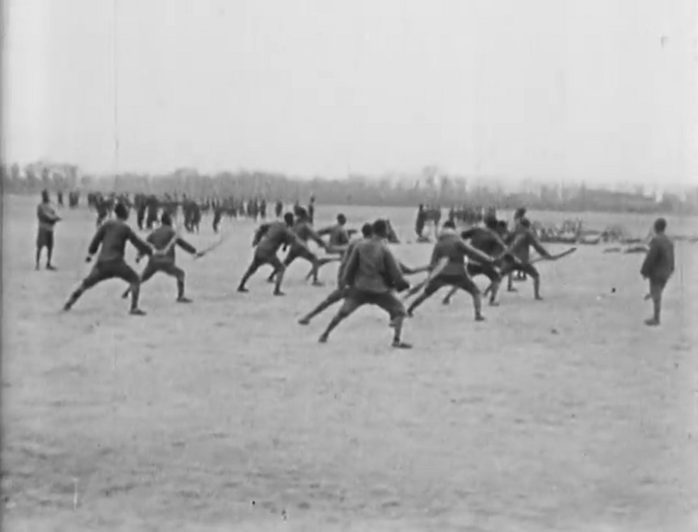 Chinese warlord soldiers training with swords in the 1920s.